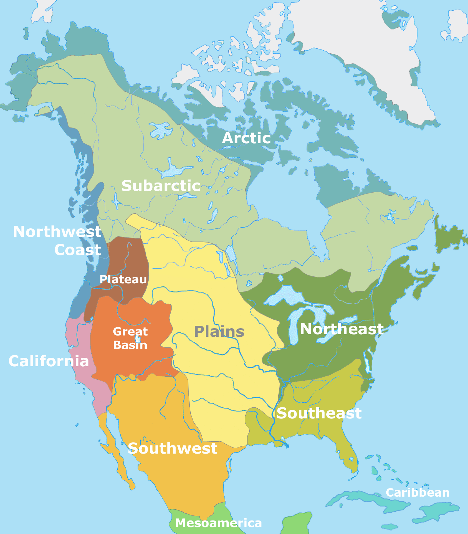 Classification of indigenous peoples of North America according to Alfred Kroeber